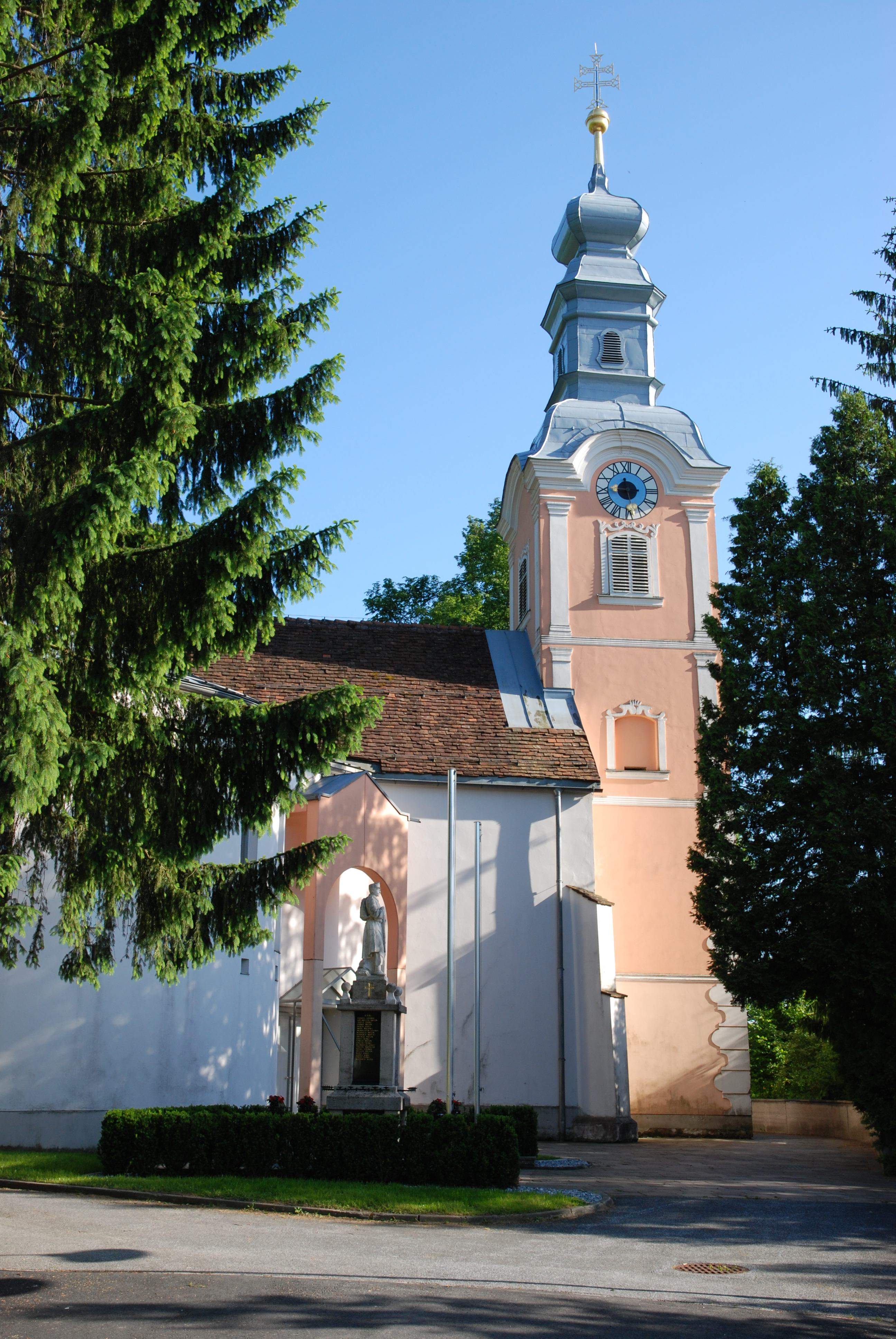 Pfarrkirche Edelsbach